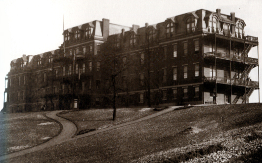 Original West Penn Hospital at 3oth and Brereton Streets.